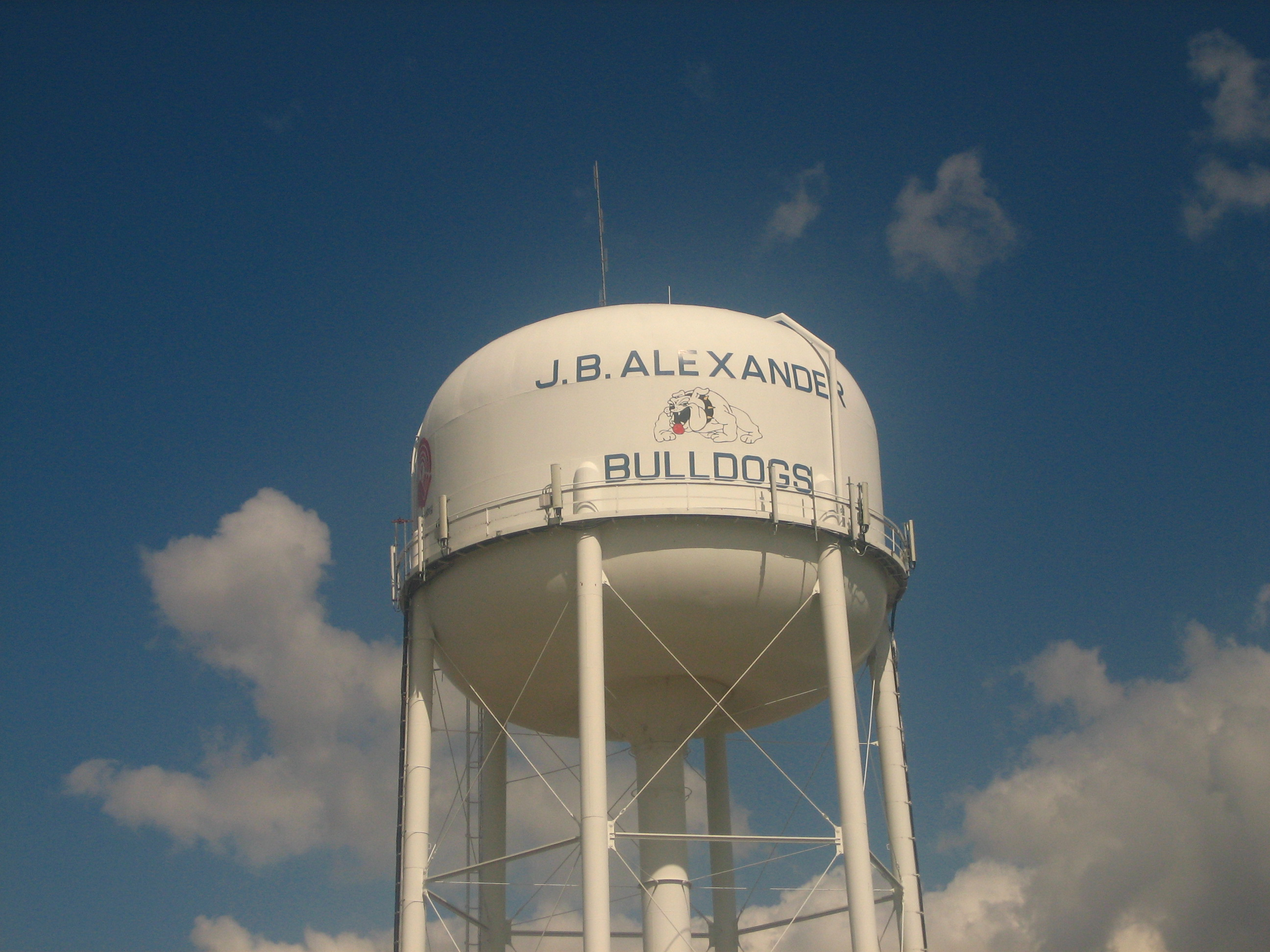 I took photo in October 2008.Billy Hathorn (talk) 04:25, 4 February 2009 (UTC)